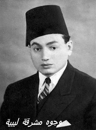 Salah Buisir (1925-1973), foreign ministers of Libya in 1969-1970